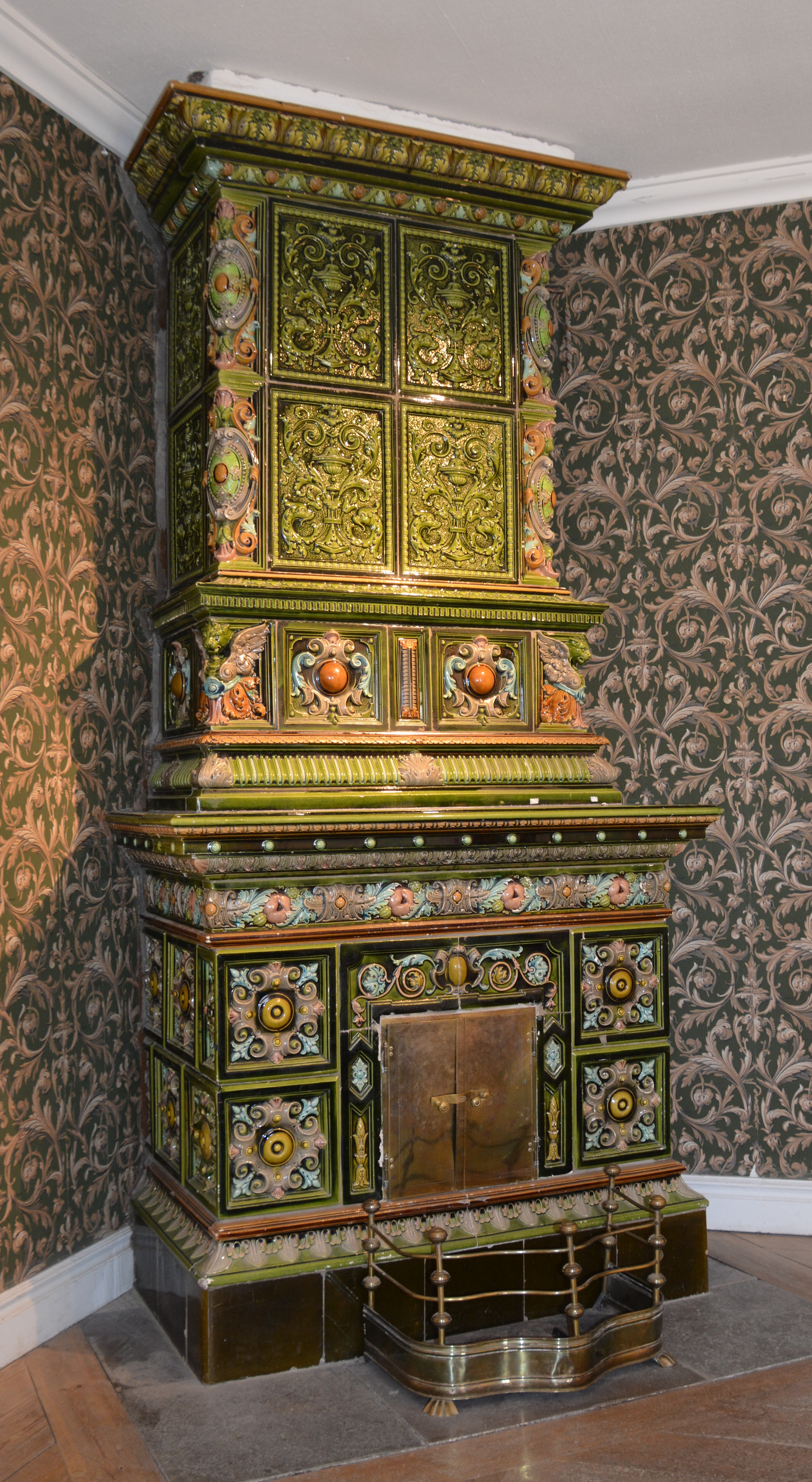 Cocklestove from Ekeby bruk, Uppsala, Sweden, 19th century. In Södertälje Museum.